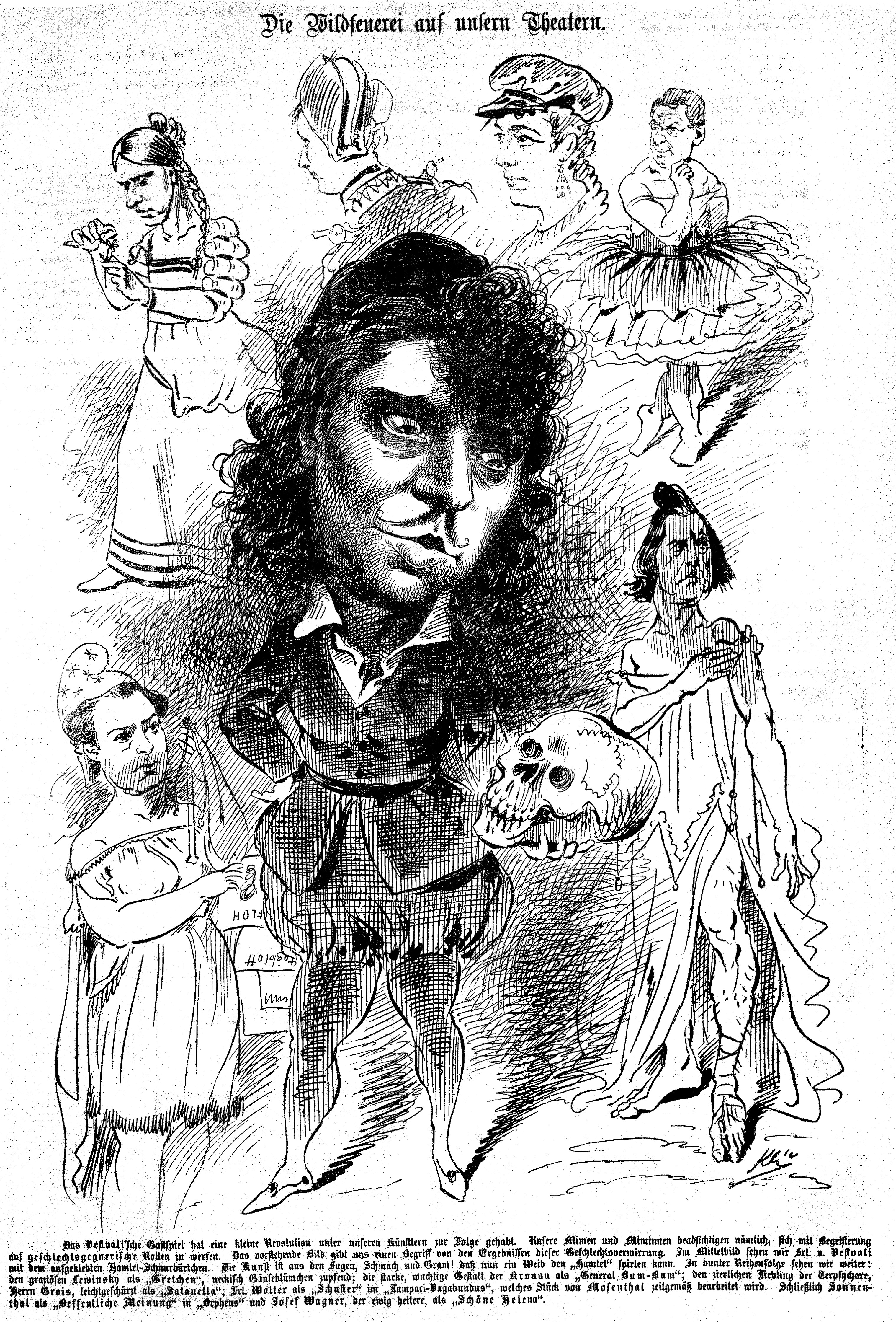 Cartoon of Felicita Vestvali (1829-1880), German opera singer, playing the role of Hamlet with an artificial moustache. She is surrounded by other actors and actresses famous for opposite-sex roles on the stages of Vienna: Lewinsky, Kronau, Mr. Grois, Miss Wolter, Sonnenthal, Josef Wagner. (See detailed description in German at the bottom of the image.)